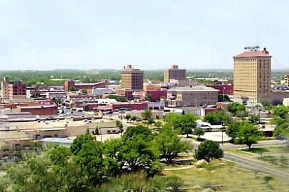 Shows a decent view of downtown San Angelo.